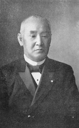 Michifusa Madenokoji